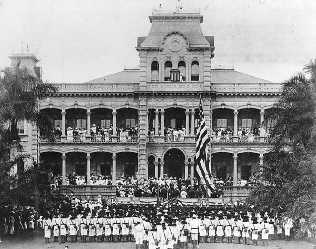 Raising American Flag at United States Annexation Ceremony at ʻIolani Palace, Honolulu, Hawaii. The American marines performing the ceremony are from the USS Philadelphia. Collection: Ray Jerome Baker Collection.